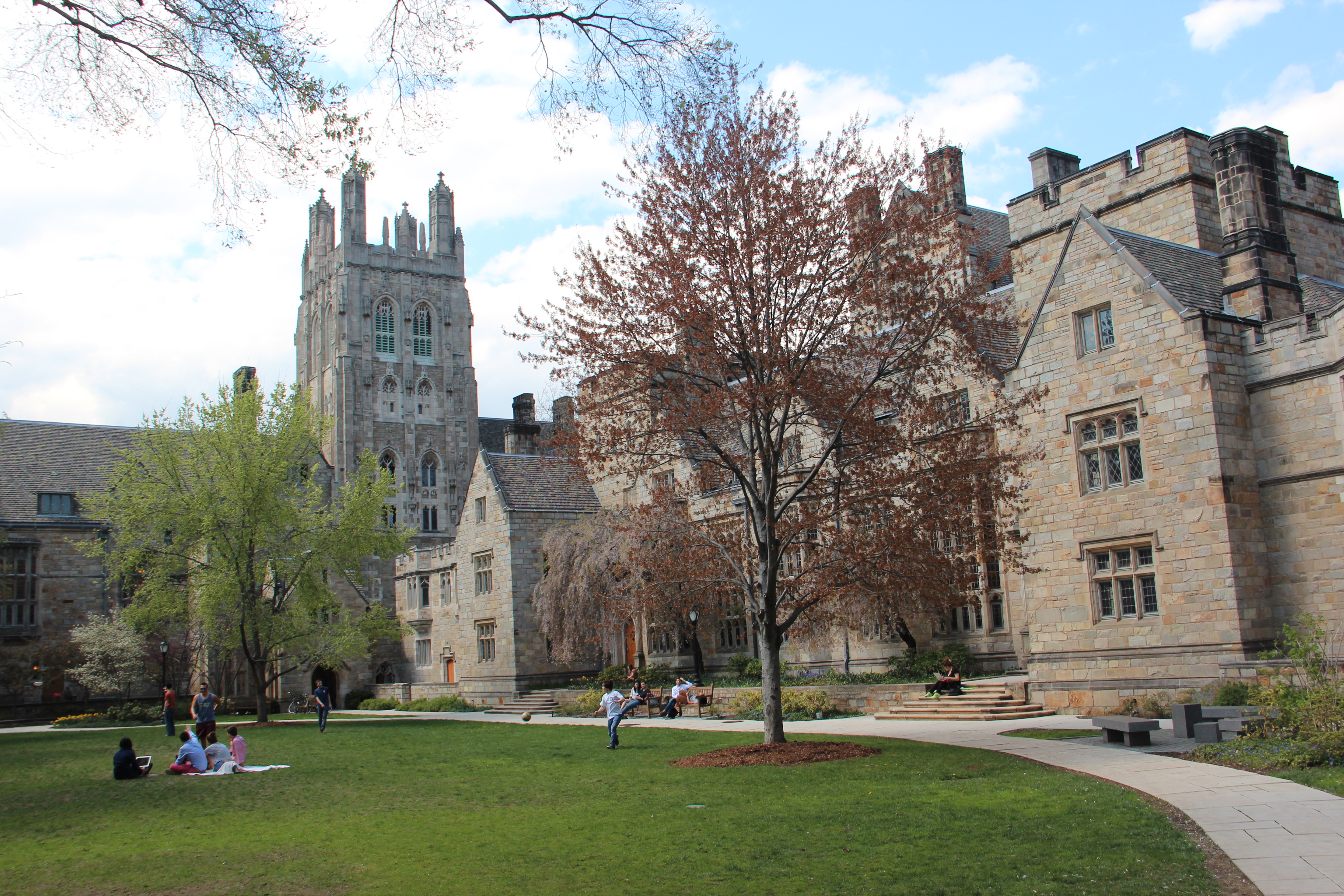 Branford Court towards the west, including Wrexham tower and the Saybrook dining hall (at right), at Yale University, New Haven, CT